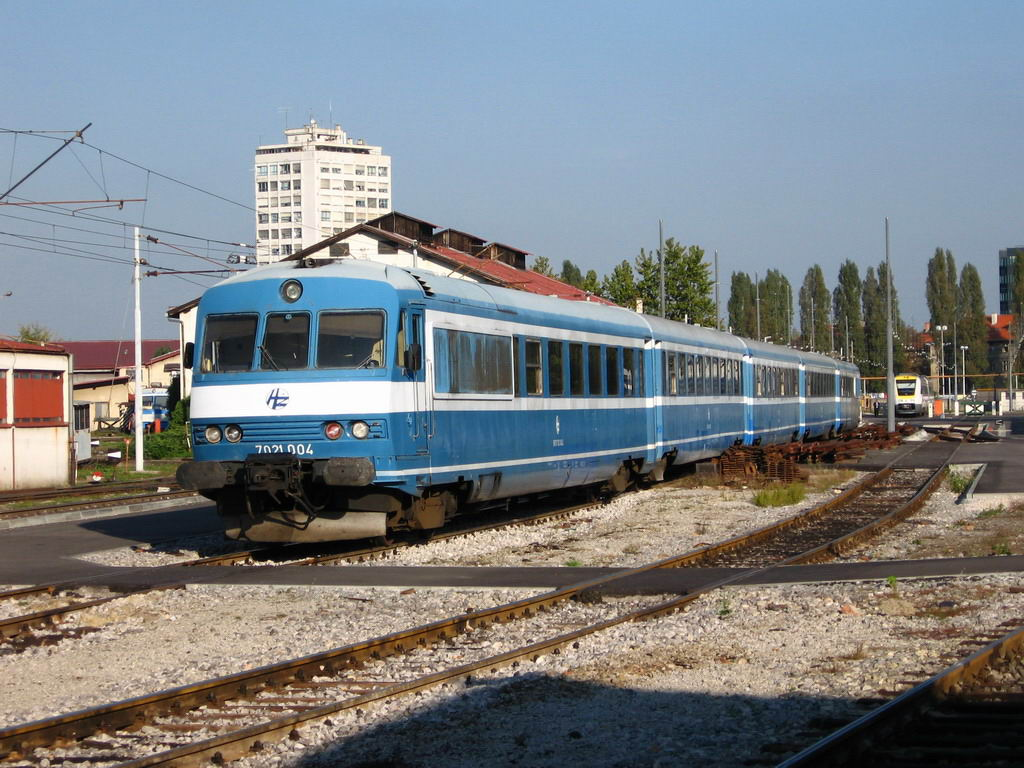 7021 series train in Zagreb, Croatia